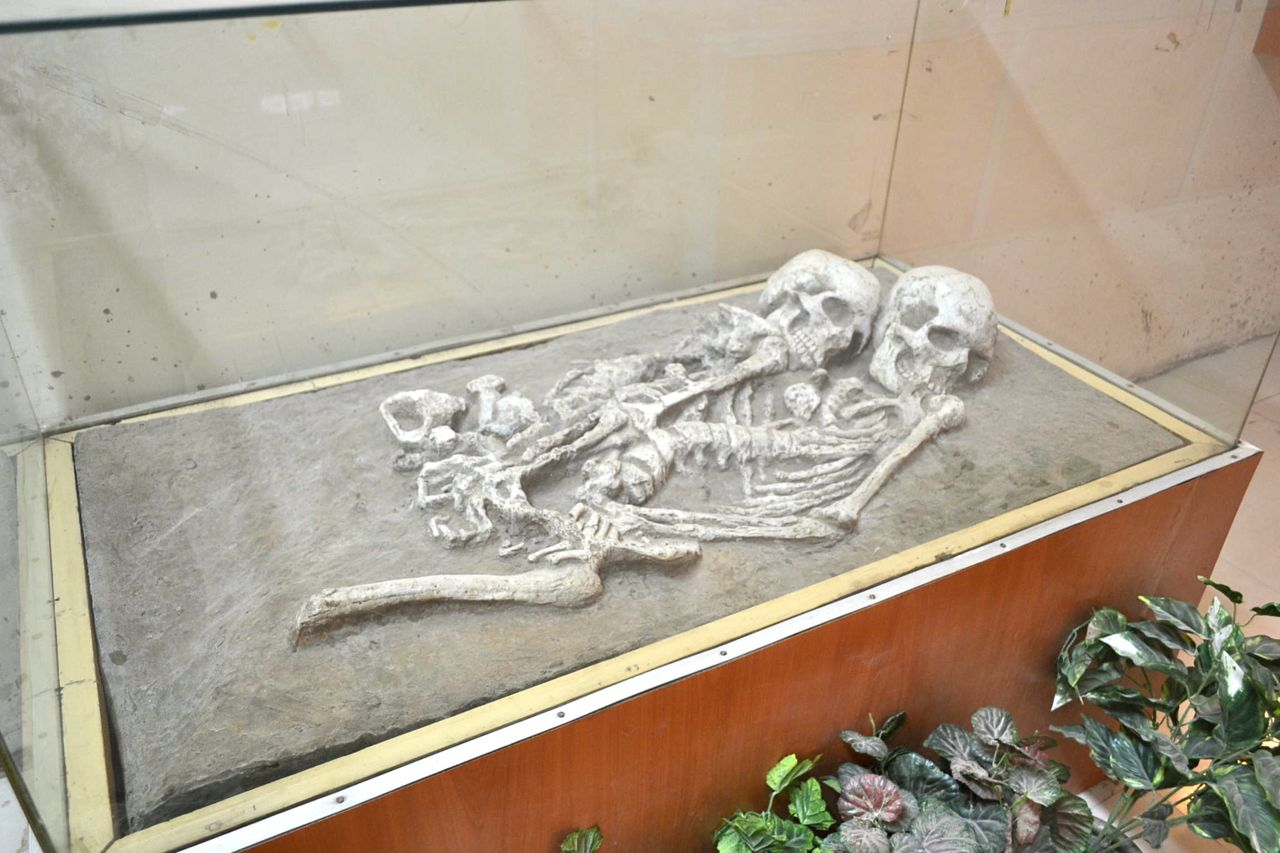 Ancient site at Lothal